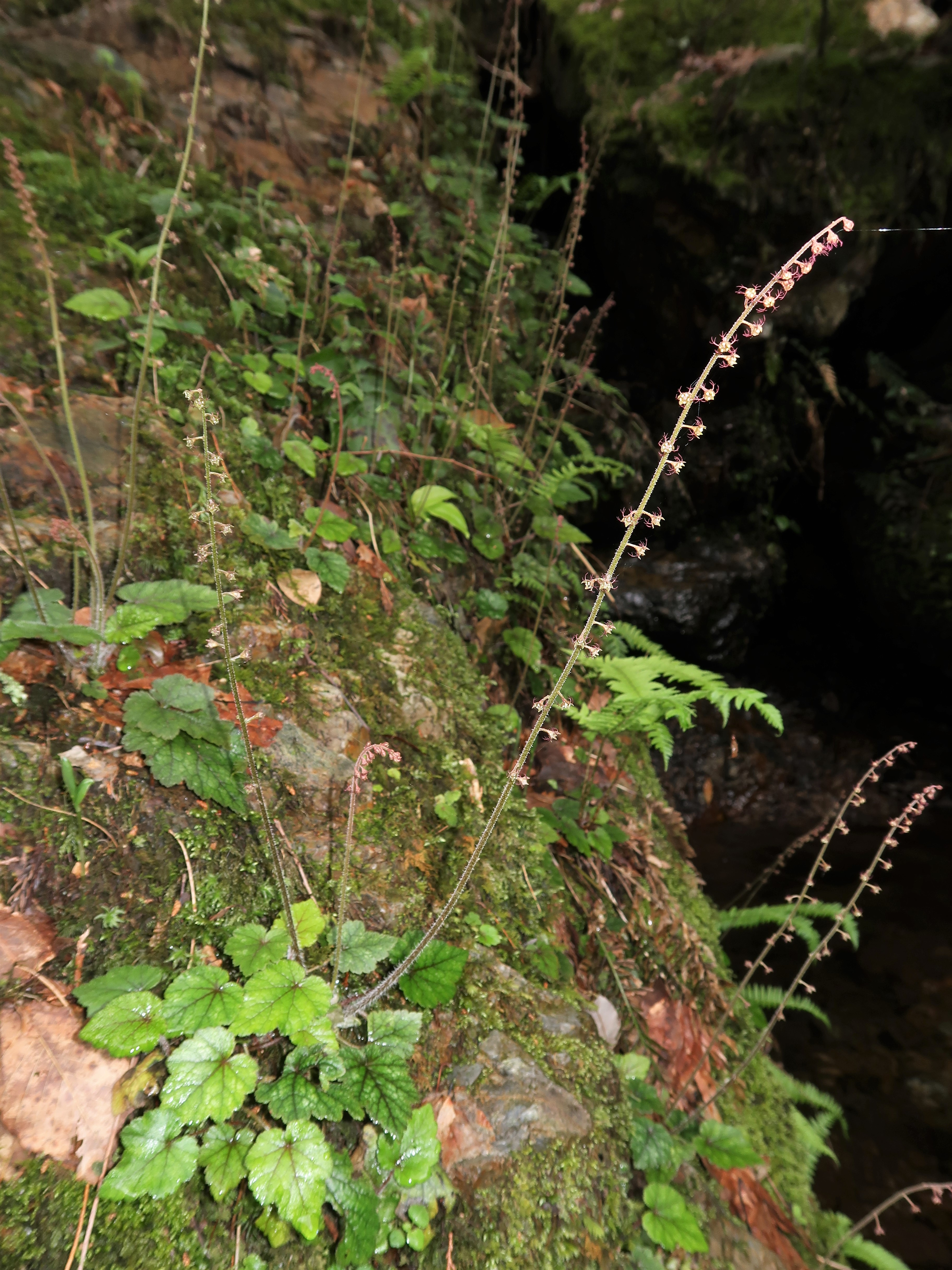 Mitella furusei var. subramosa, Reinan area, Fukui pref., Japan